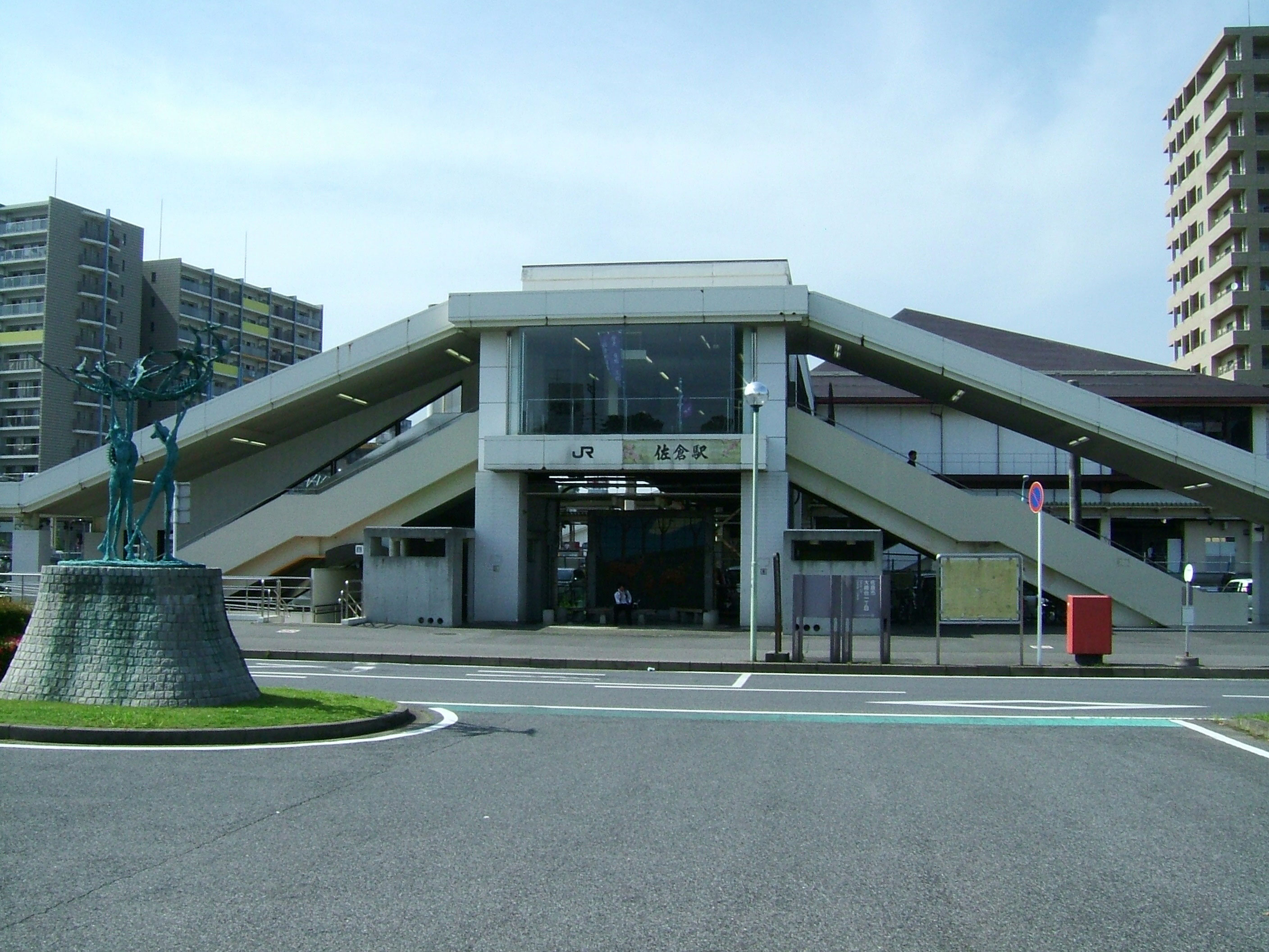 Sakura Station south entrance (East Japan Railway Sōbu Main Line, Narita Line)